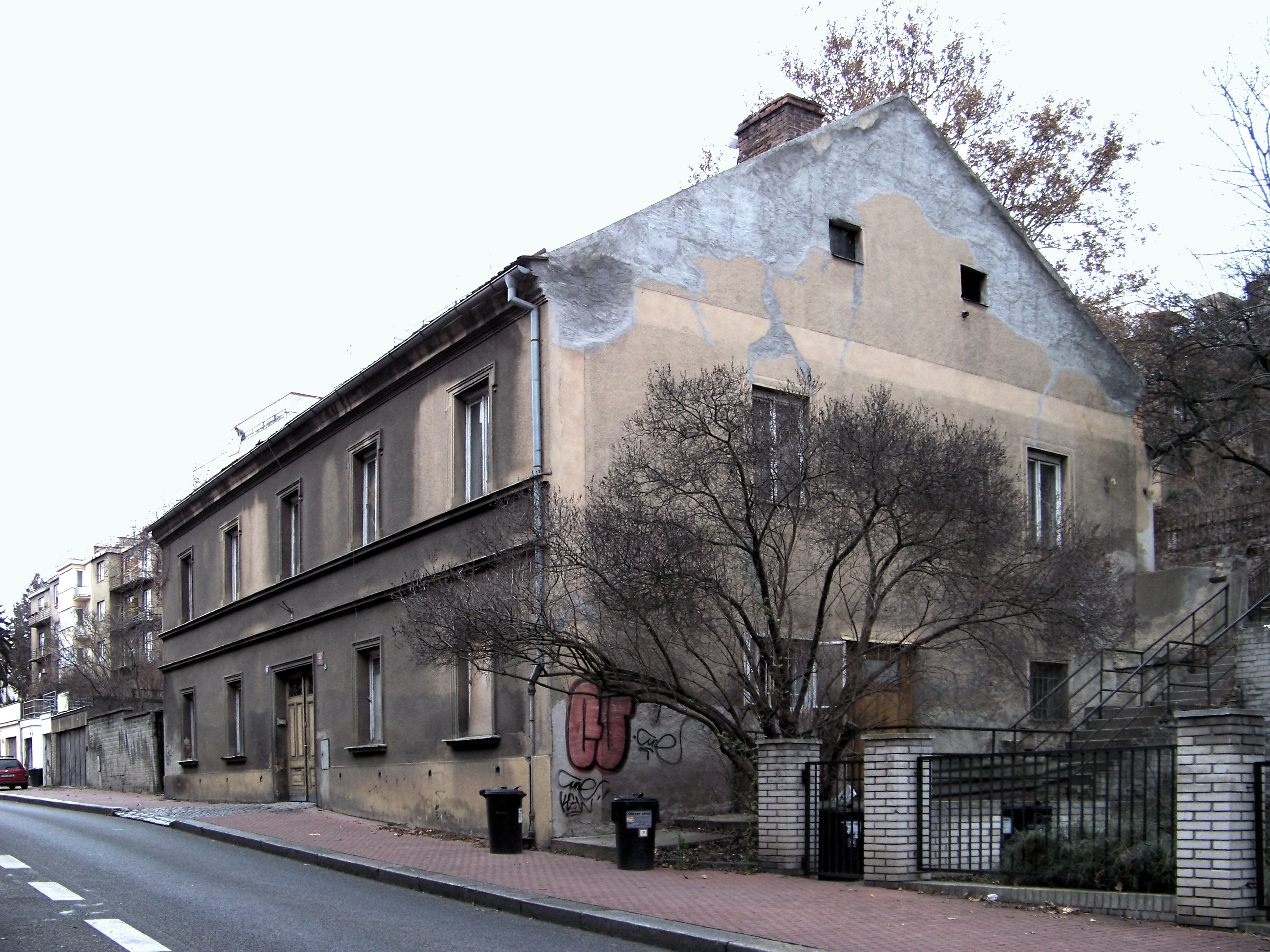 Prague-Smíchov, the Czech Republic. Holečkova 161/48.